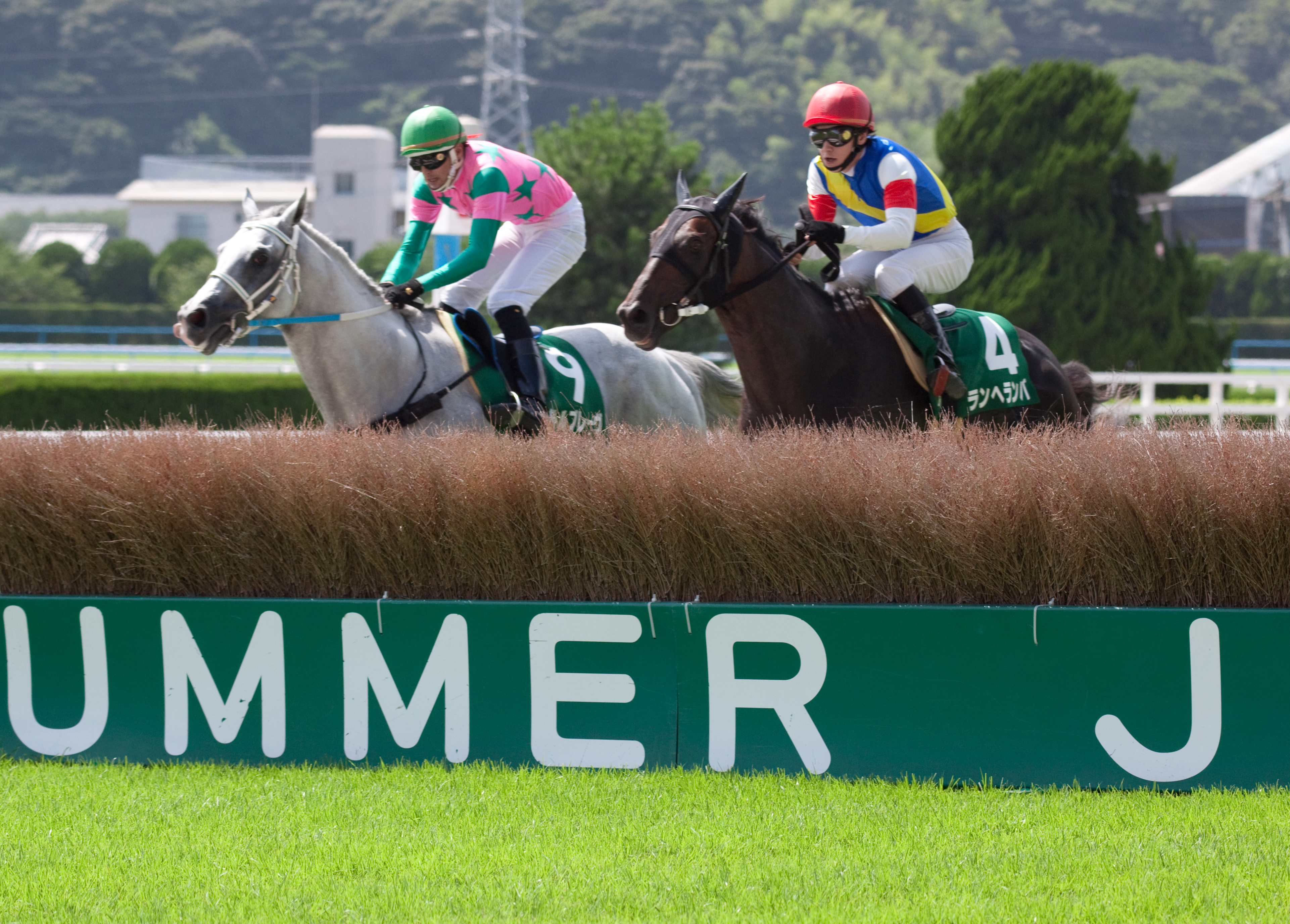 Kokura Summer Jump(2010)